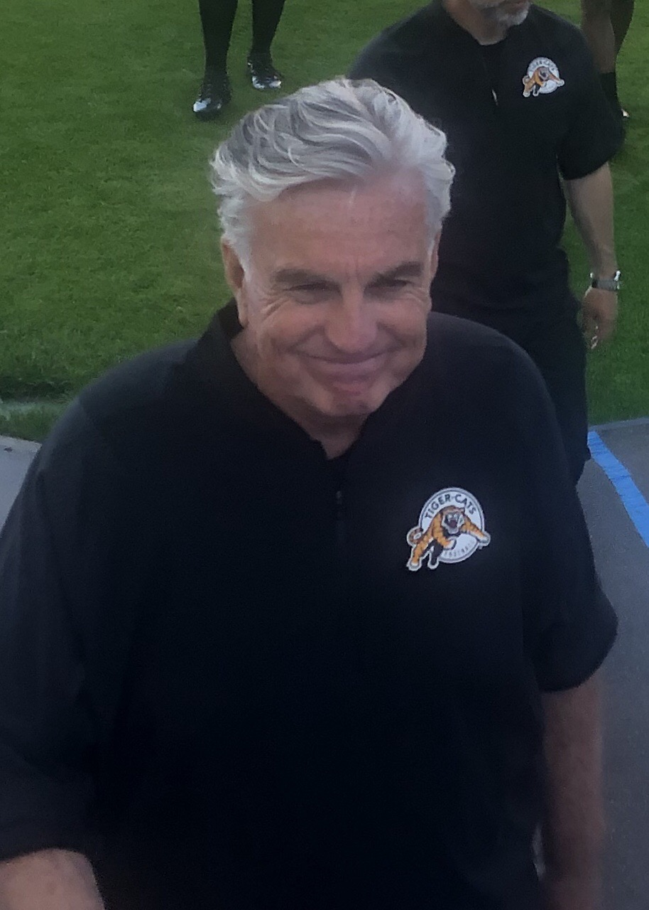 Jim Barker, consultant for the Hamilton Tiger-Cats.